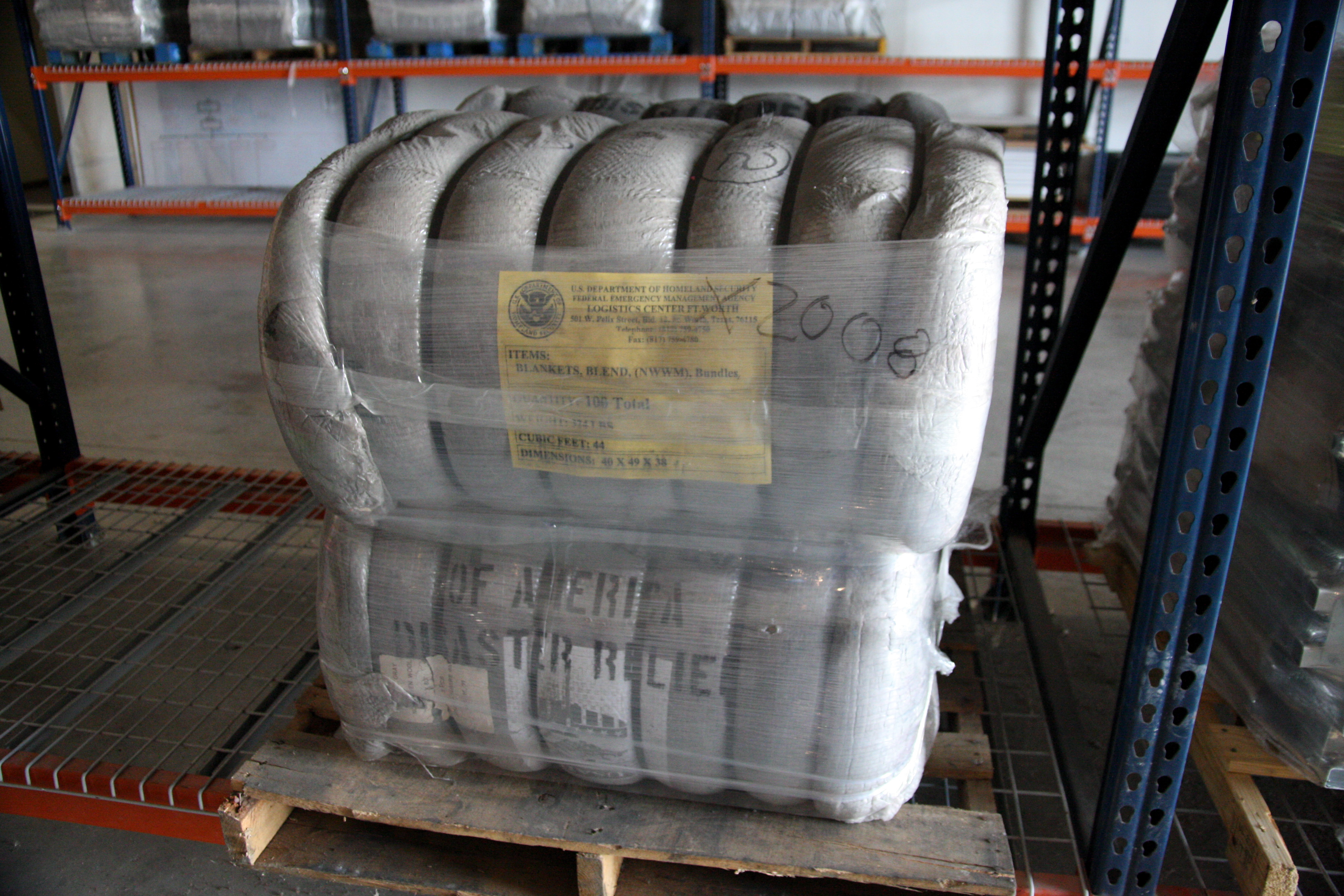 Carville, LA, August 29, 2008 -- Interior of a warehouse where commodities are lined up on pallets, ready to be distributed. The Staging Site for commodities, blankets, water, MRES(Meals Ready to Eat), cots, and other essentials for potential evacuees of Hurricane Gustav . Jacinta Quesada/FEMA